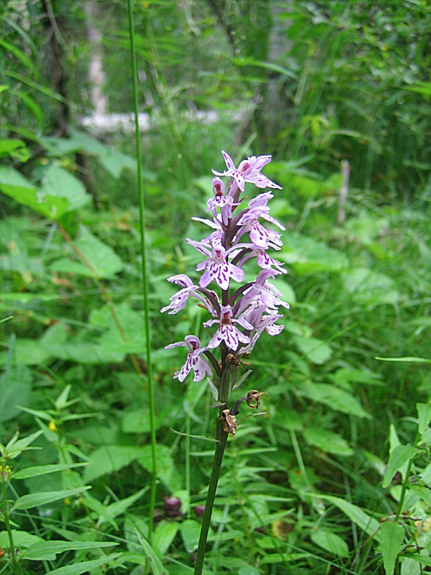 Heath Spotted-orchid